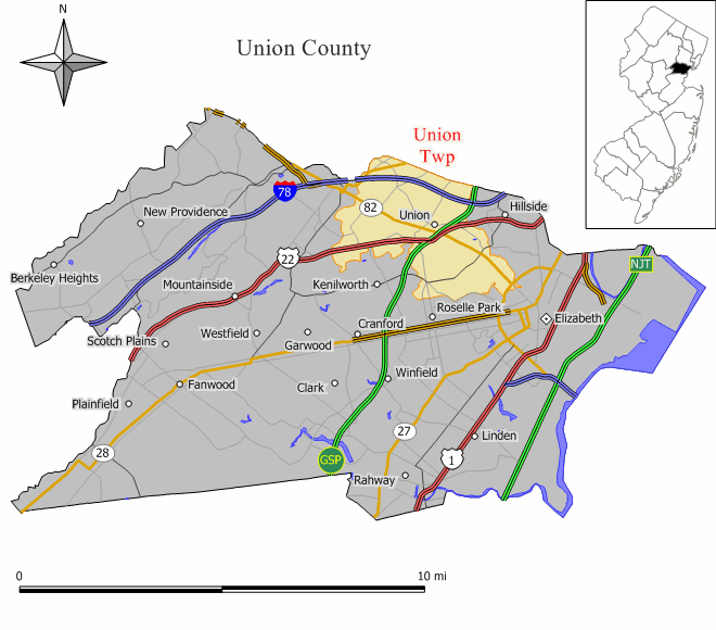 Source: Jim Irwin Original work by Jim Irwin, December 2005.